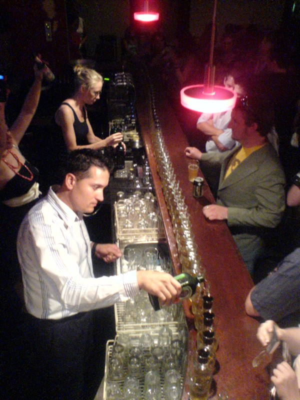 50 Jager Bombs ready to go off! Taken at Duke of York, Adelaide, 12-Jan-2007.